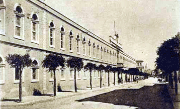 The School of Arts and Trades in Tripoli (1923) on 24th of December Street